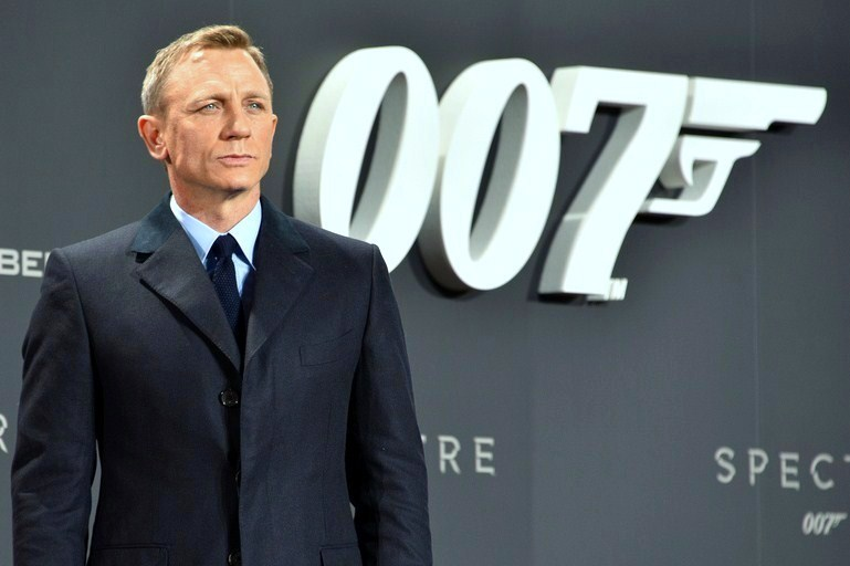 Daniel Craig (James Bond). Film Premiere "Spectre" 007 - on the Red Carpet in Berlin.